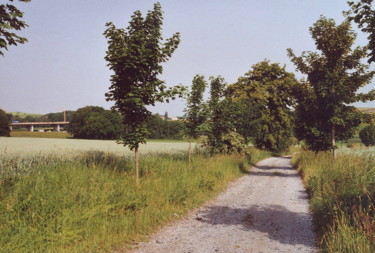 View on the old Dresden-Teplitz postroute with the building site of the autobahn Dresden - Prag in the background.